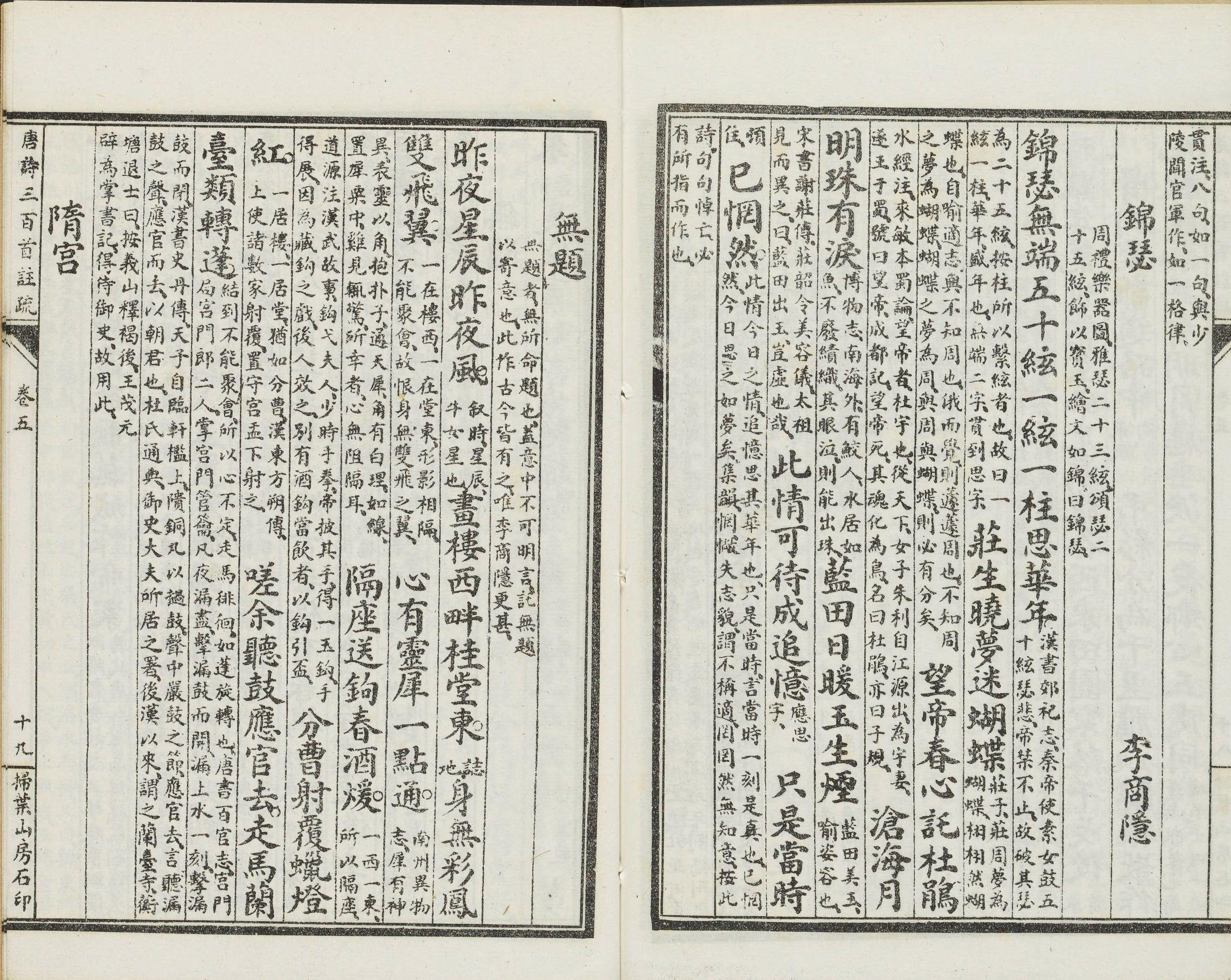 Three Hundred Tang Poems